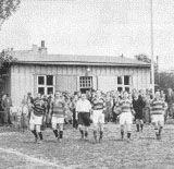 The photo shows the clubhouse which was used by the Danish football club Frem in the years 1905-1942.